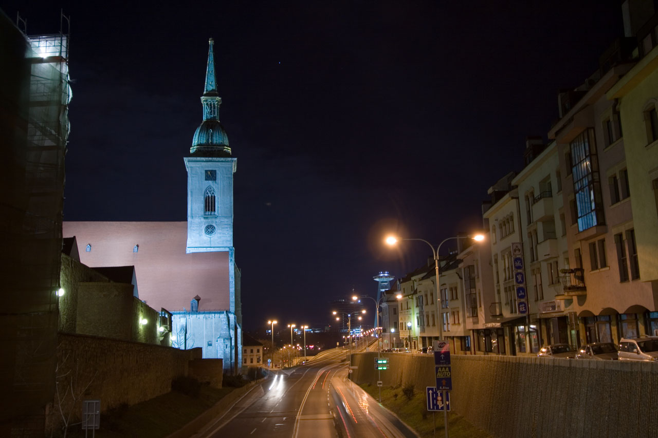 Night shot of St. Martin's Cathedral in Bratislava, Slovakia.